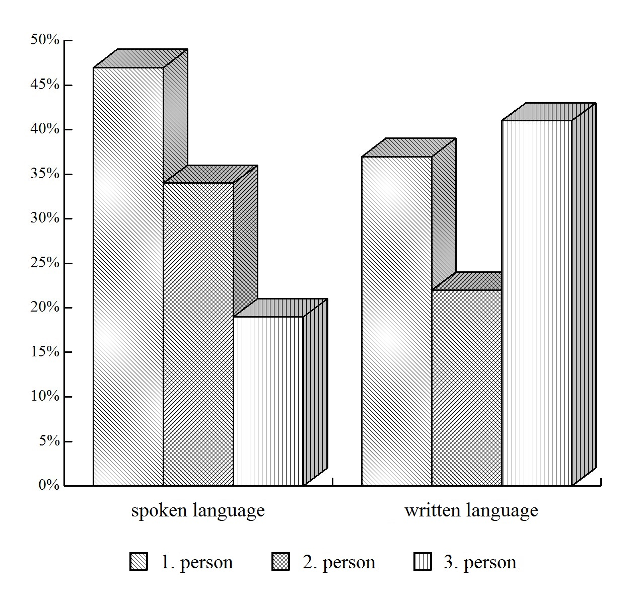 English translation of the File:Personal pronouns.jpg